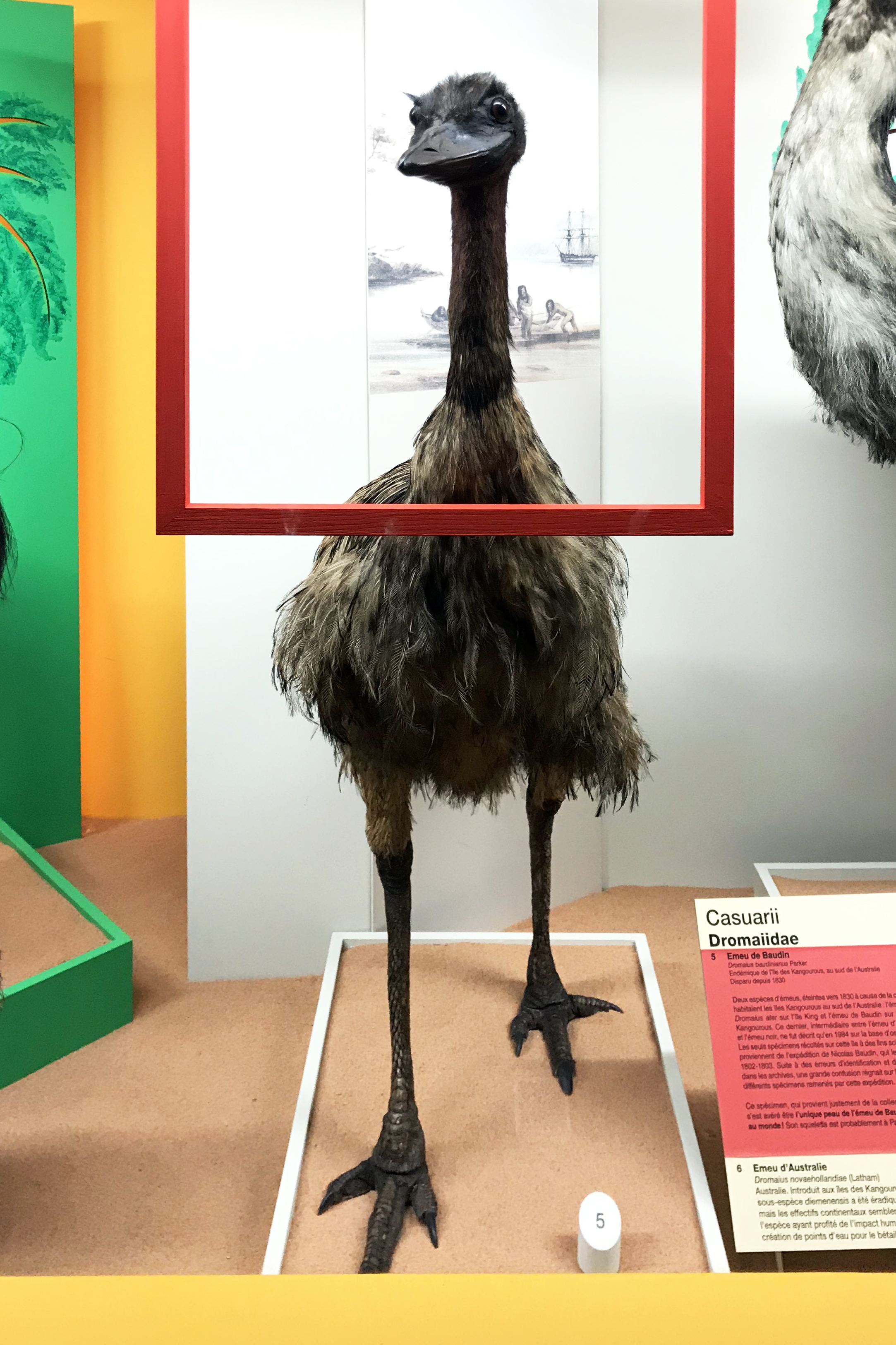 Only known skin of a Kangaroo Island emu (Dromaius novaehollandiae baudinianus), mounted, at the History Museum of Geneva (Switzerland). Its skeleton is exhibited in the Natural History Museum of Paris (France). The Kangaroo Island emu was restricted to Kangaroo Island, South Australia. The species became extinct by about 1827.